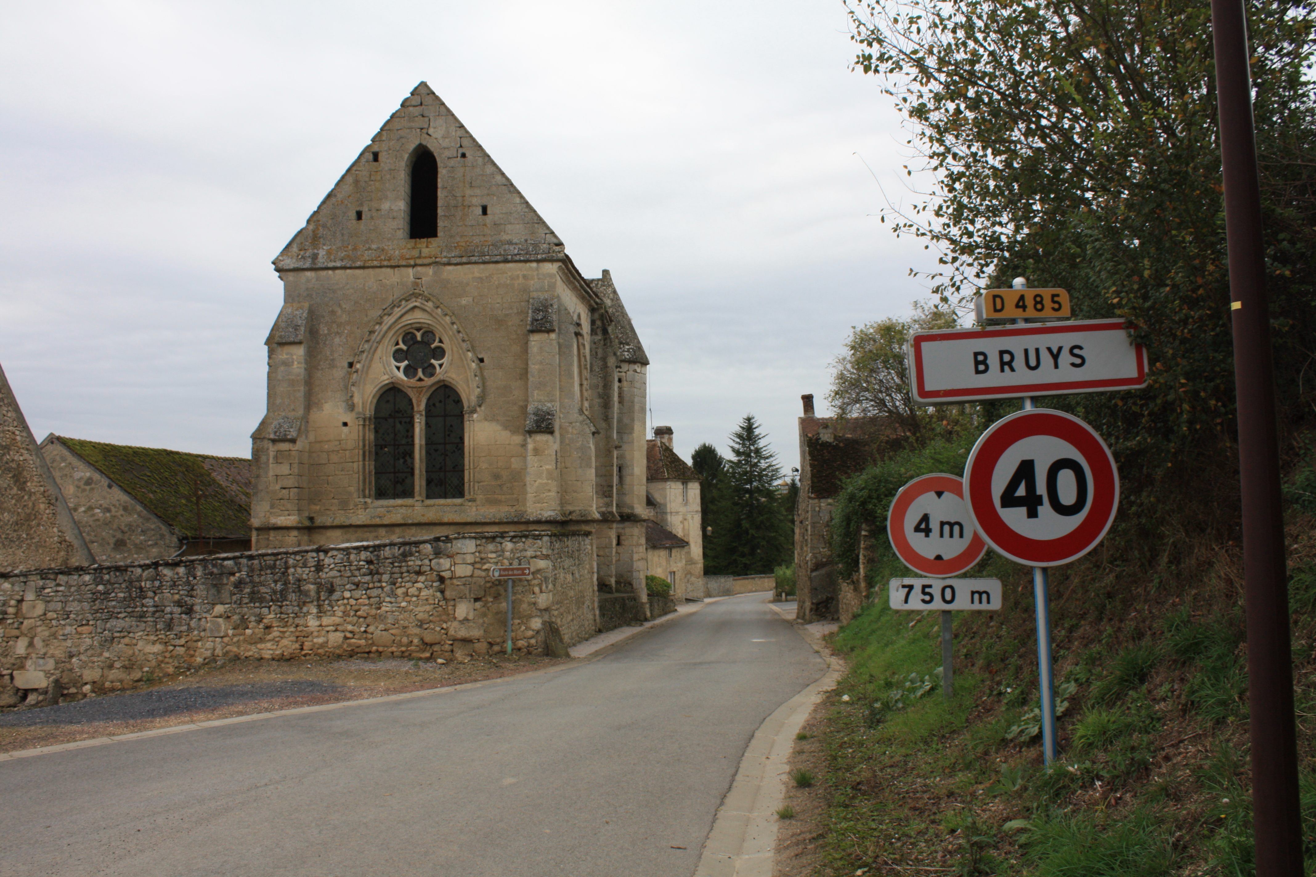 Village de Bruys